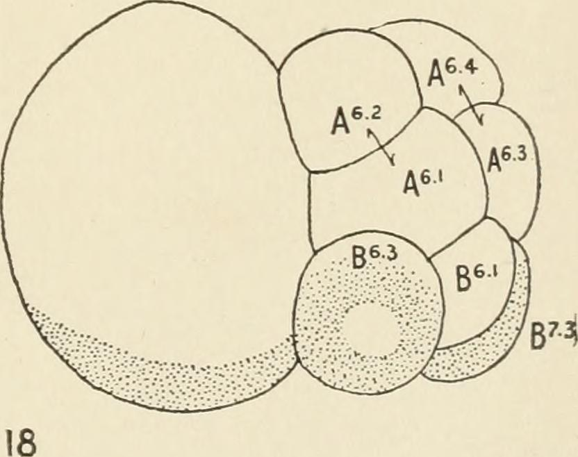 Title: The Journal of experimental zoology Year: 1905 (1900s) Authors: Harrison, Ross G. (Ross Granville), 1870-1959 Brooks, William Keith, 1848-1908 Wistar Institute of Anatomy and Biology American Society of Zoologists Subjects: Zoology Publisher: (New York, etc.) Wiley-Liss (etc.) Text Appearing Before Image: ' Text Appearing After Image: l6o Edivm G. Conklin. DeveloiMent of Right Blastomerl of the 2-Cell Stage; also of Right and Left Blastomeres OF the 4-Cell Stage. Figs. 19, 20. Same embryo as that shown in Figs. 13-18. Fig. 19. Right half of 46-cell stage,posterior view; the yellow crescent cells are not quite normal in position. Fig. 20. Right half of48-cell stage, dorsal view. The caudal endoderm cells (B- and B--) have been shoved away from themedian plane by the cell B^-^. Figs. 21,22. Fixed and stained preparations of half embryos in the 16-cell stage. Fig. 21. Righthalf embryo, posterior view. Fig. 22. Left half embryo, ventral-posterior view. Figs. 23, 24. Successive stages of one and the same half embryo, the left half having been injuredin the 4-cell stage, dorsal view. Fig. 23. Right half of i6-cell stage. Fig. 24. Right half of 32-cellstage. The cleavage is like the right half of a normal egg in every respect. Mosaic Development in Ascidian Eggs, l6l V